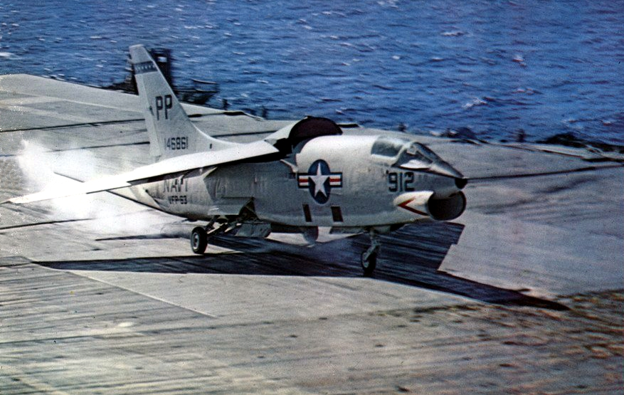 A U.S. Navy Vought RF-8A Crusader (BuNo 146861) of Photographic Reconnaissance Squadron VFP-63 Det.B "Eyes of the Fleet" landing aboard the aircraft carrier USS Ticonderoga (CVA-14). VFP-63 Det.B was assigned to Carrier Air Wing 5 (CVW-5) aboard the Ticonderoga for a deployment to the Western Pacific from 3 January to 15 July 1963. 146861 later collided with an F-8J (BuNo 150299) of Fighter Squadron VF-24 over the Gulf of Tonkin while getting ready to refuel from a tanker on 5 September 1972. Th pilot ejected and was rescued.